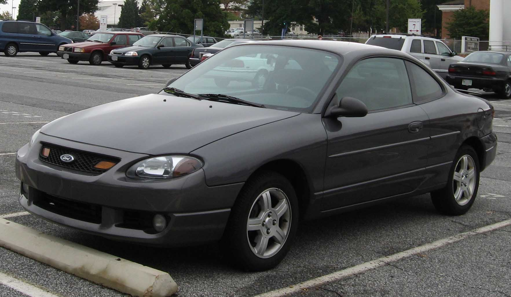 2003 Ford ZX-2 photographed in USA.